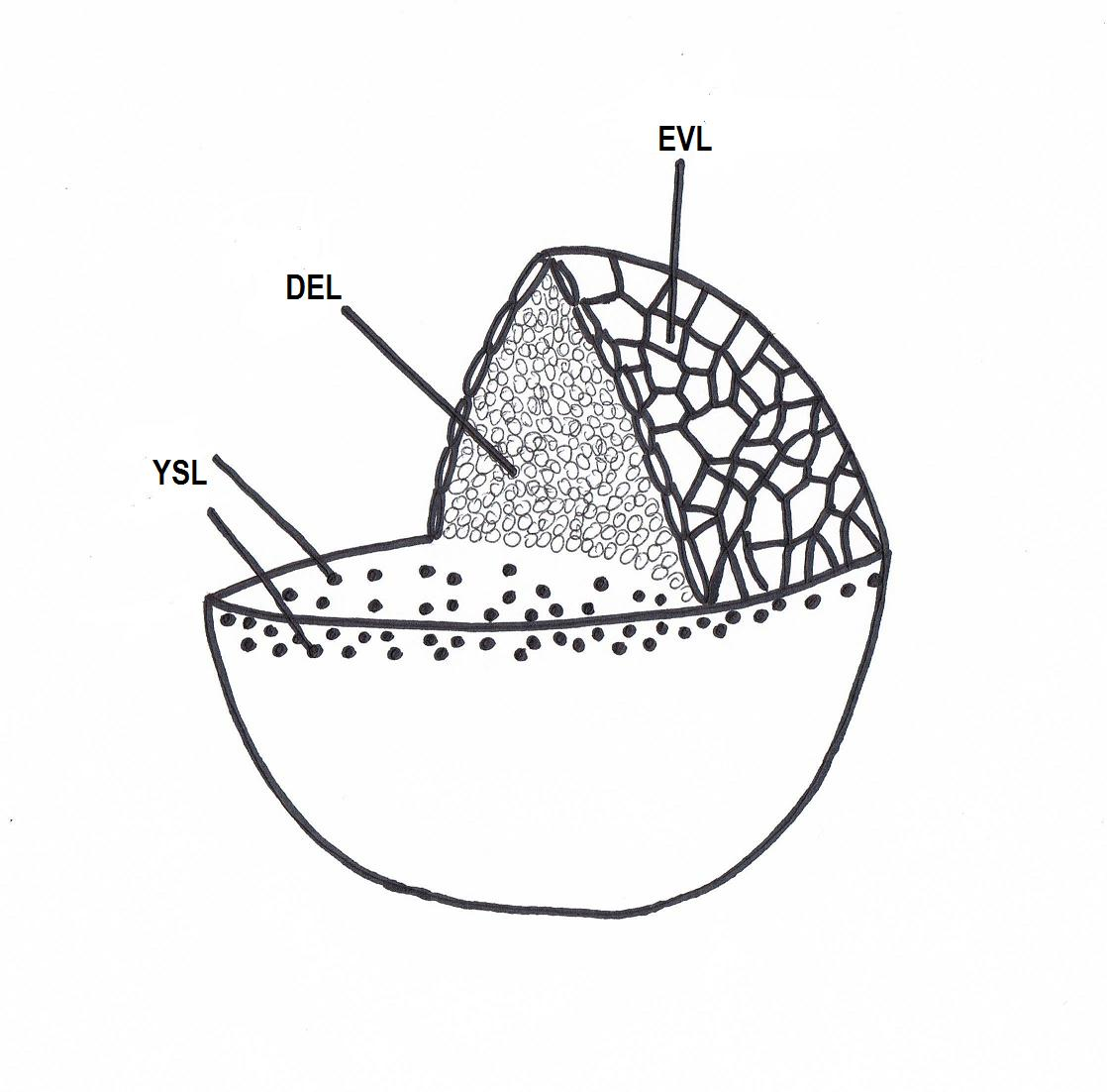 This is a cartoon of a zebrafish embryo at sphere stage (~4 hours post fertilization), showing the three cell layers that are present in the embryo.